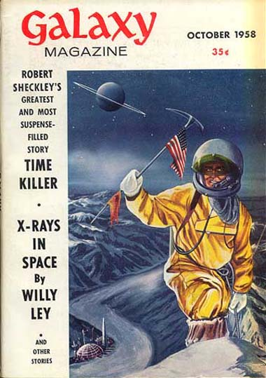 Cover of Galaxy, October 1958